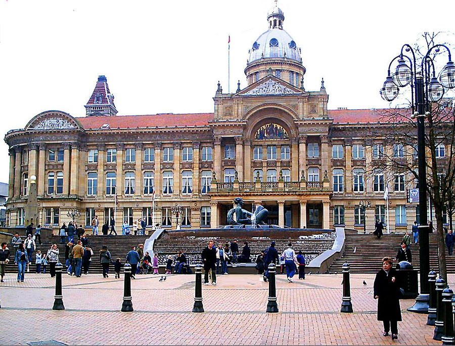 Victoria Square in central Birmingham, in the background in the Birmingham Council House. Photo by G-Man 2004